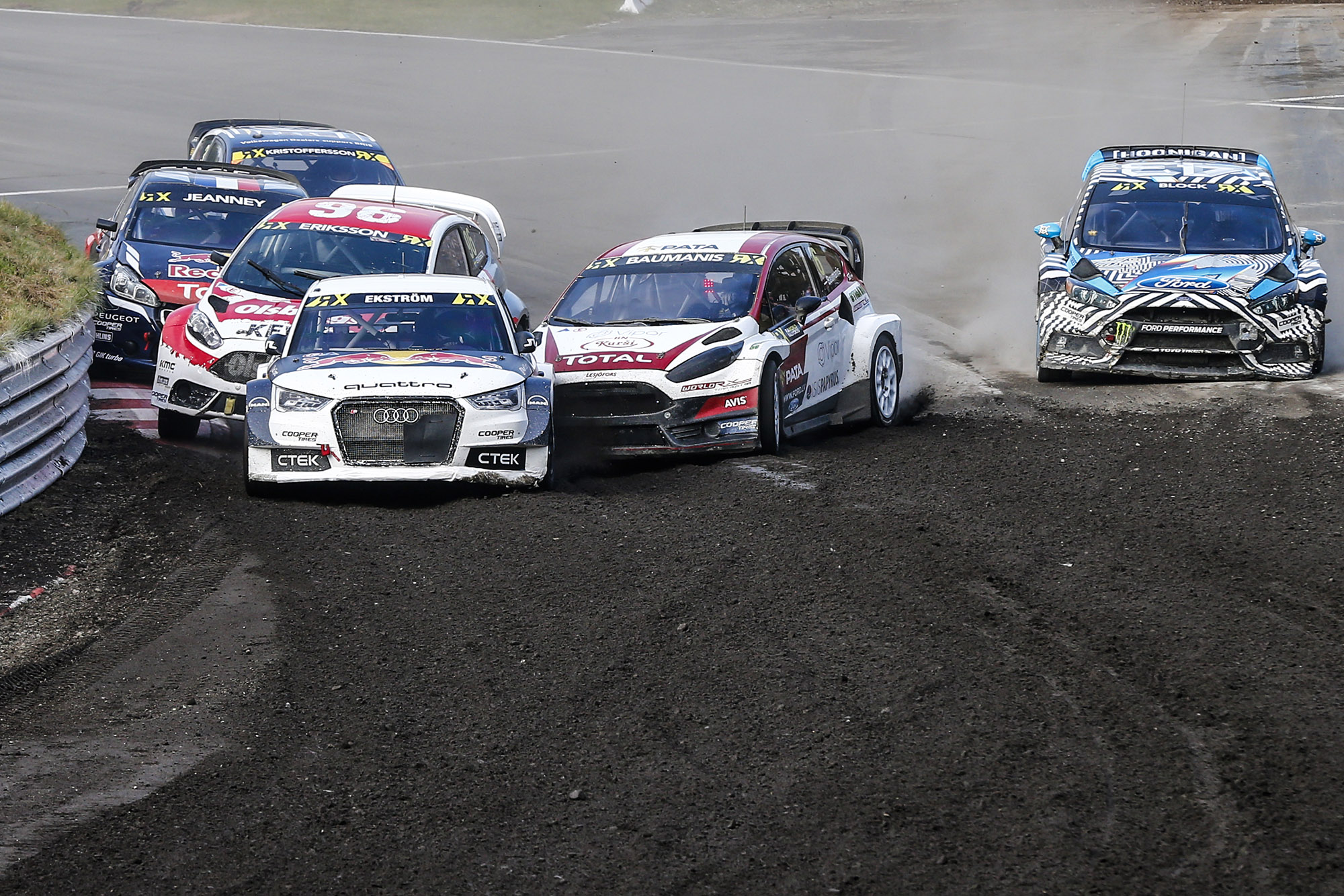 2016 FIA World RX Rallycross Championship / Round 11 / Buxtehude, Germany / October 14-16, 2016 // Worldwide Copyright:Colin McMaster/EKS/McKlein